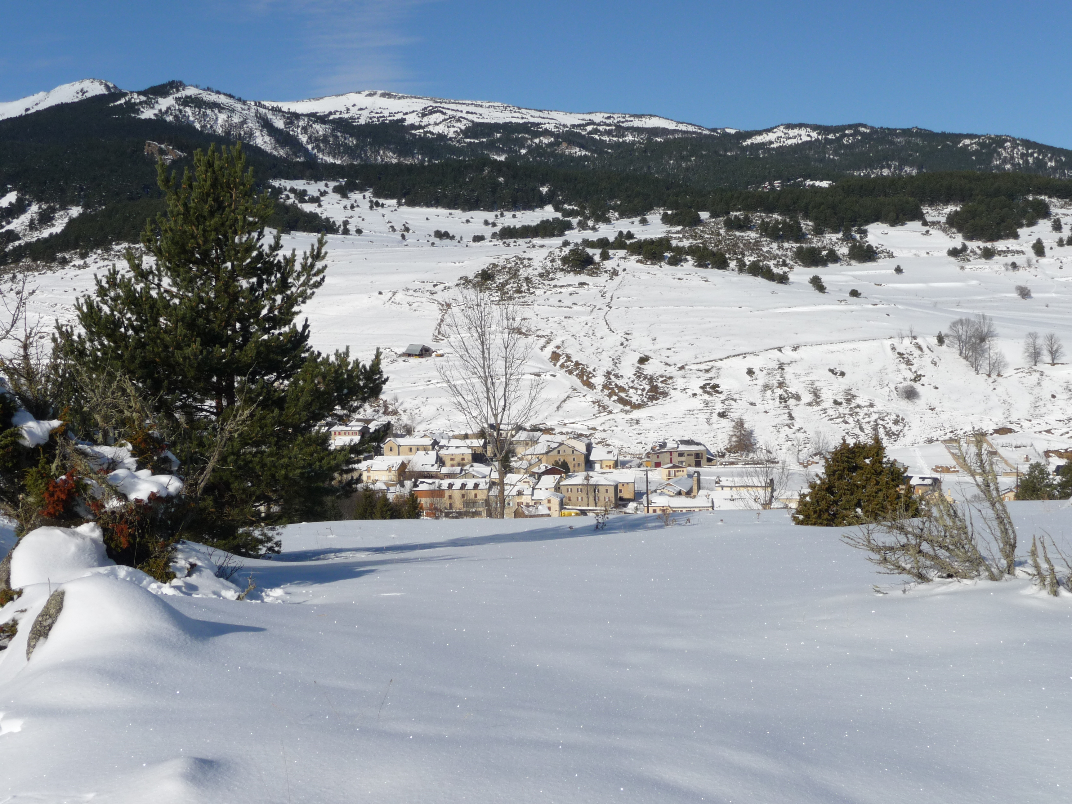 A view of Fontrabiouse, France, 66